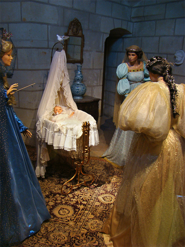 Château d’Ussé, Indre-et-Loire, Centre, France. Scene from Charles Perrault's Sleeping Beauty.